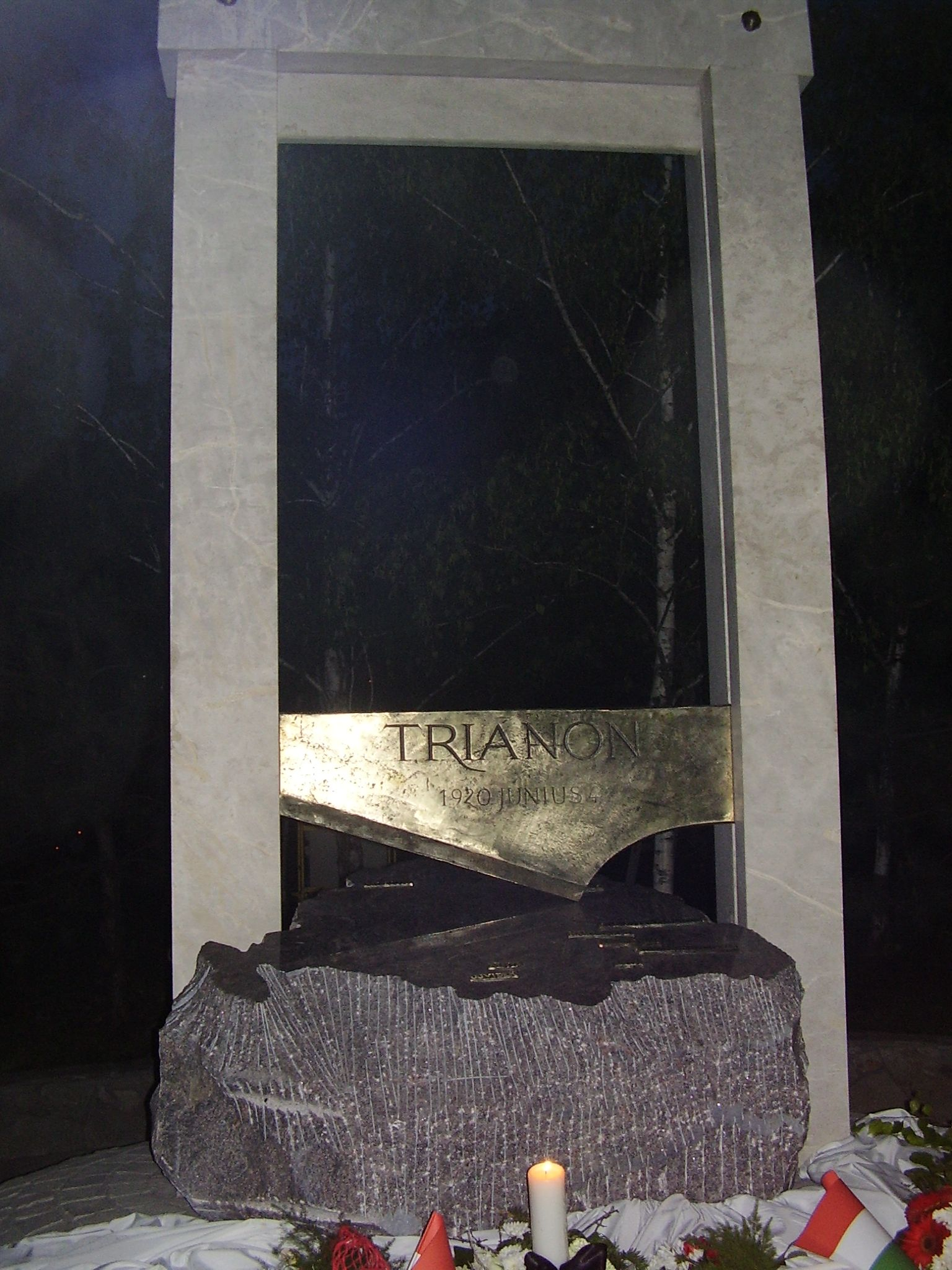 The Trianon-statue in Békéscsaba, Hungary at night